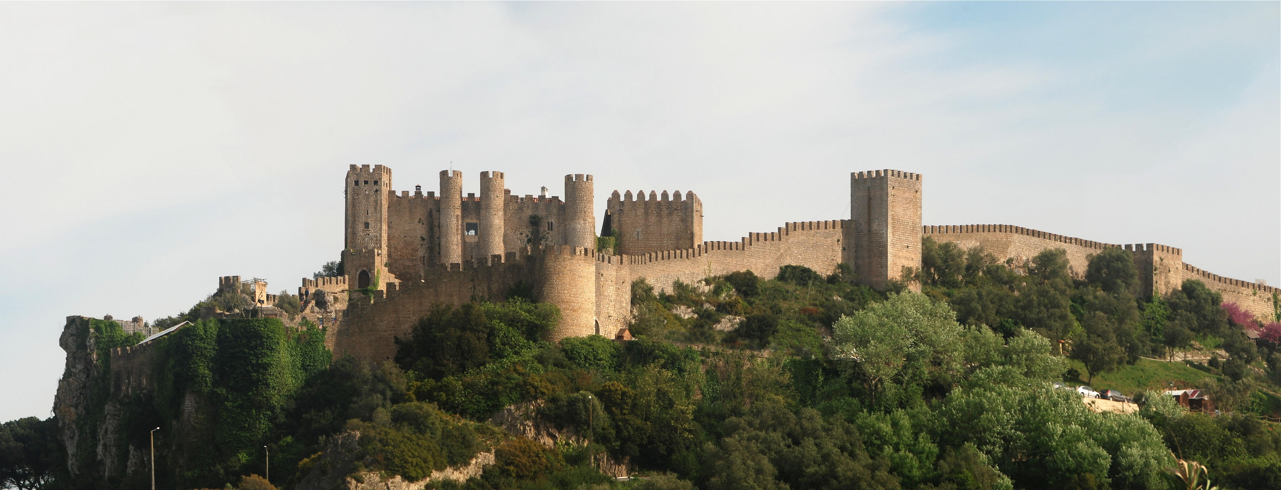 The castle and walls of Óbidos, Portugal. View from west.